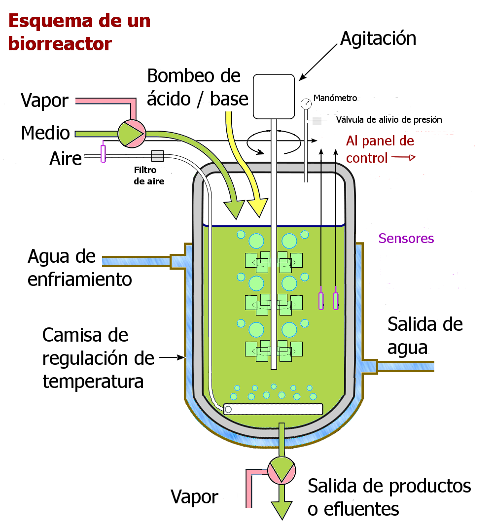 Bioreactor schematics. Captions in Spanish. Diagram based on Real life bioreactor, by KVDP, also in Wikimedia Commons. Bioreactors are often called fermenters.